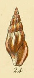 Mangelia septangularis Montagu (Murex), accepted as Haedropleura septangularis[1]. From Illustrated Index of British Shells, Plate XIX., Fig. 24.